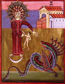 The Woman and the dragon